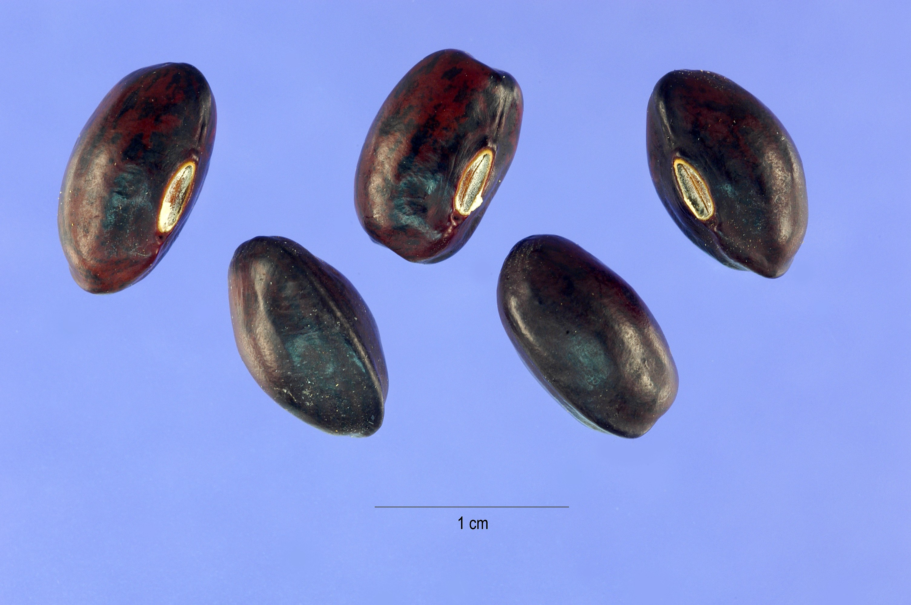 Wisteria frutescens (L.) Poir., seeds.